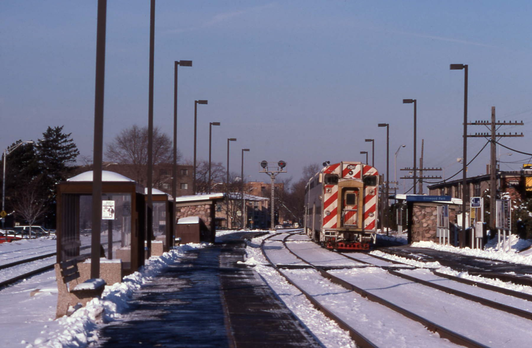 The Metra station in Elmwood Park, Illinois.